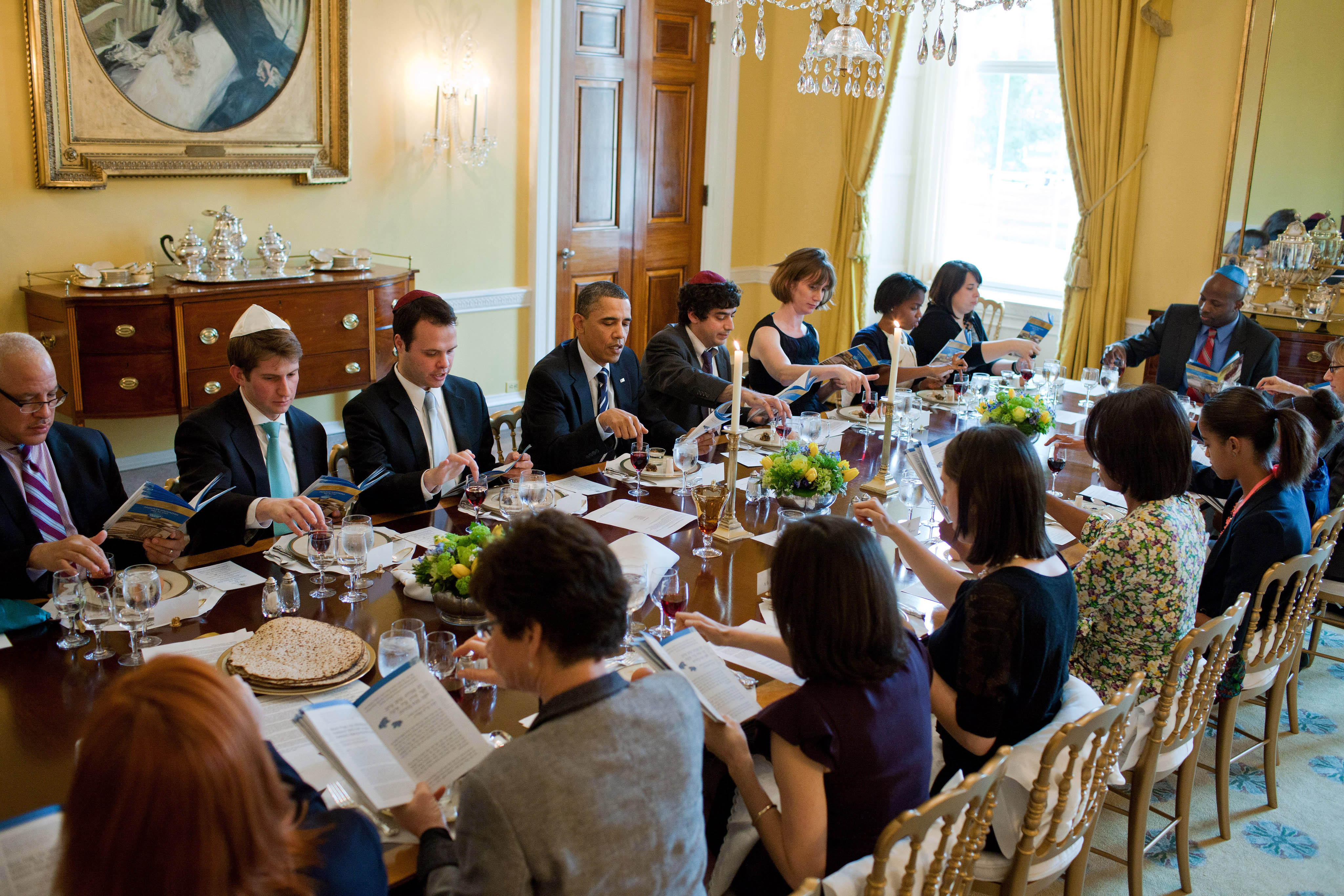 United States President Barack Obama and and First Lady Michelle Obama mark the beginning of Passover with a Seder on 18 April 2011. The diners are seated on Chiavari chairs in the Old Family Dining Room of the White House.